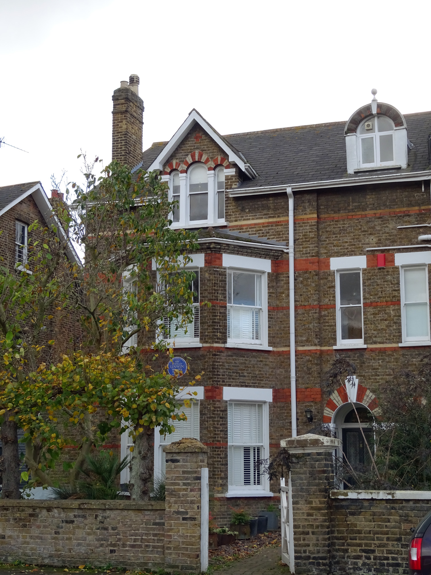 SIR STANLEY UNWIN 1884-1968 Publisher was born here - 13 Handen Road Lee London SE12 8NP